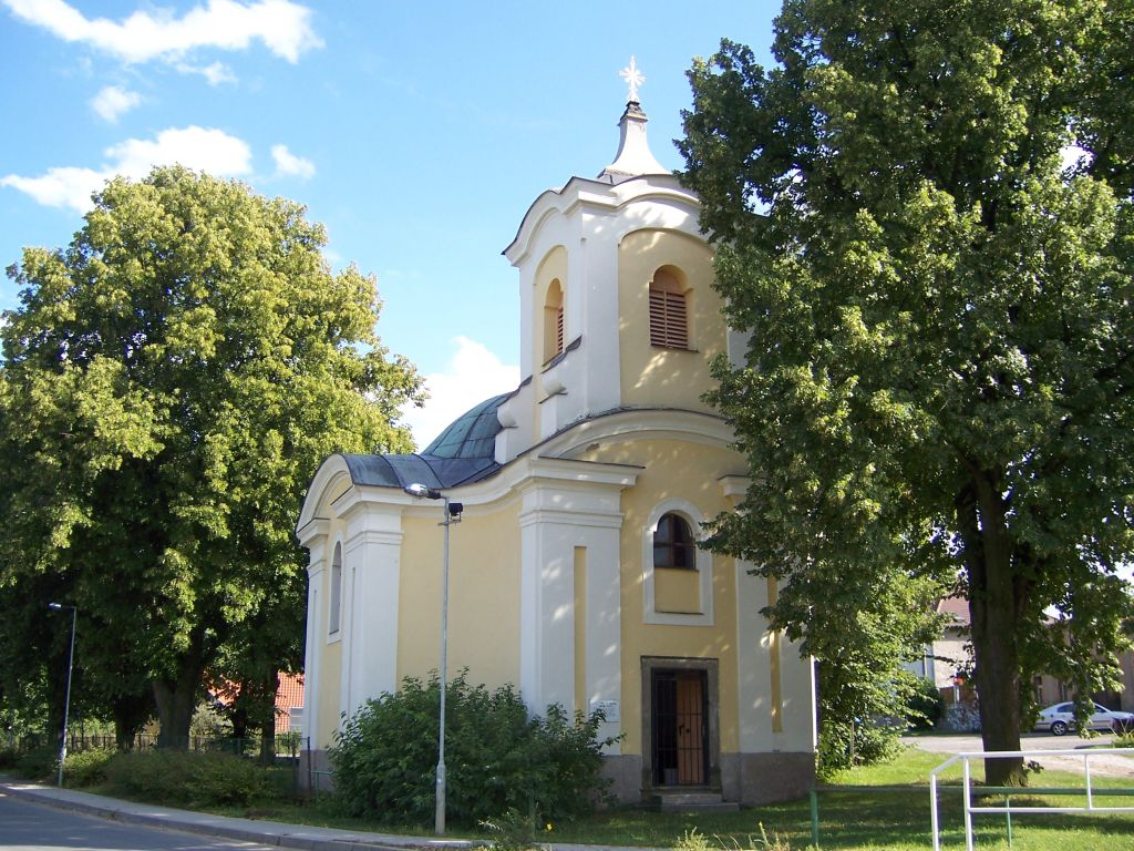 Dobročovice, chapel of Saint Isidore.